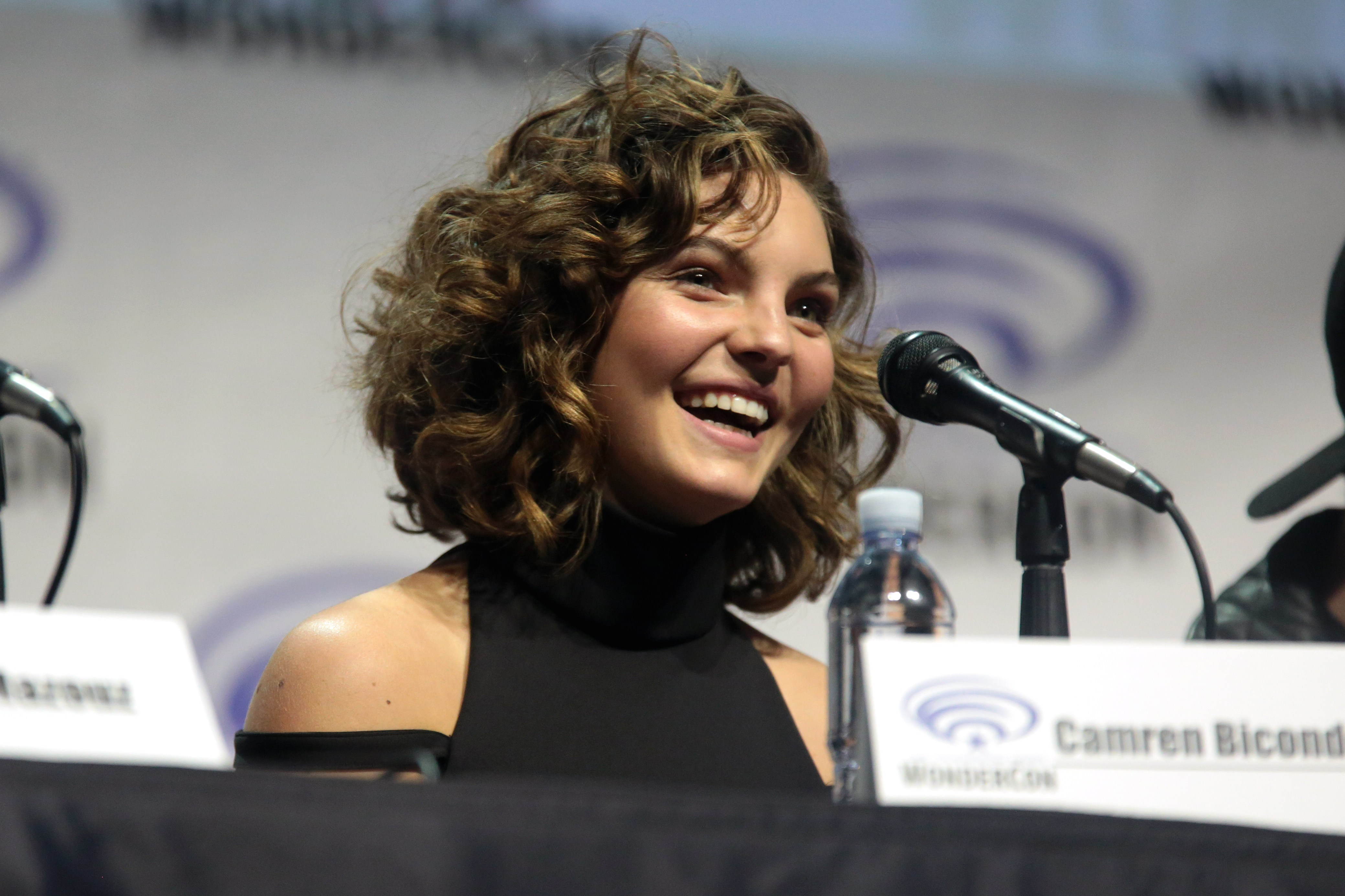 Camren Bicondova speaking at the 2017 WonderCon, for "Gotham", at the Anaheim Convention Center in Anaheim, California.